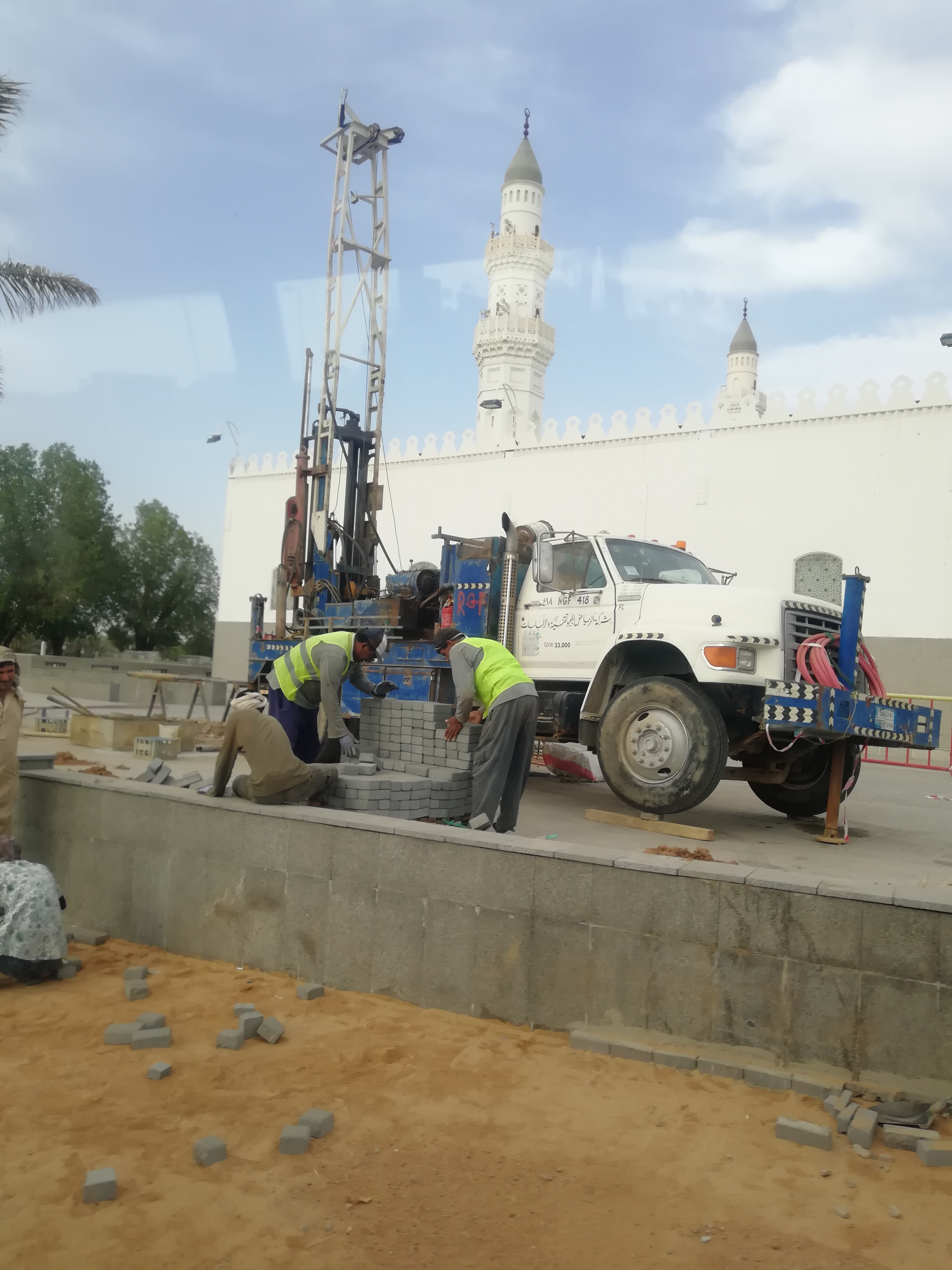 al-Madinah al-Munawarah al-Khatam district Arees well (Khatam well) near Qibaa Mosque